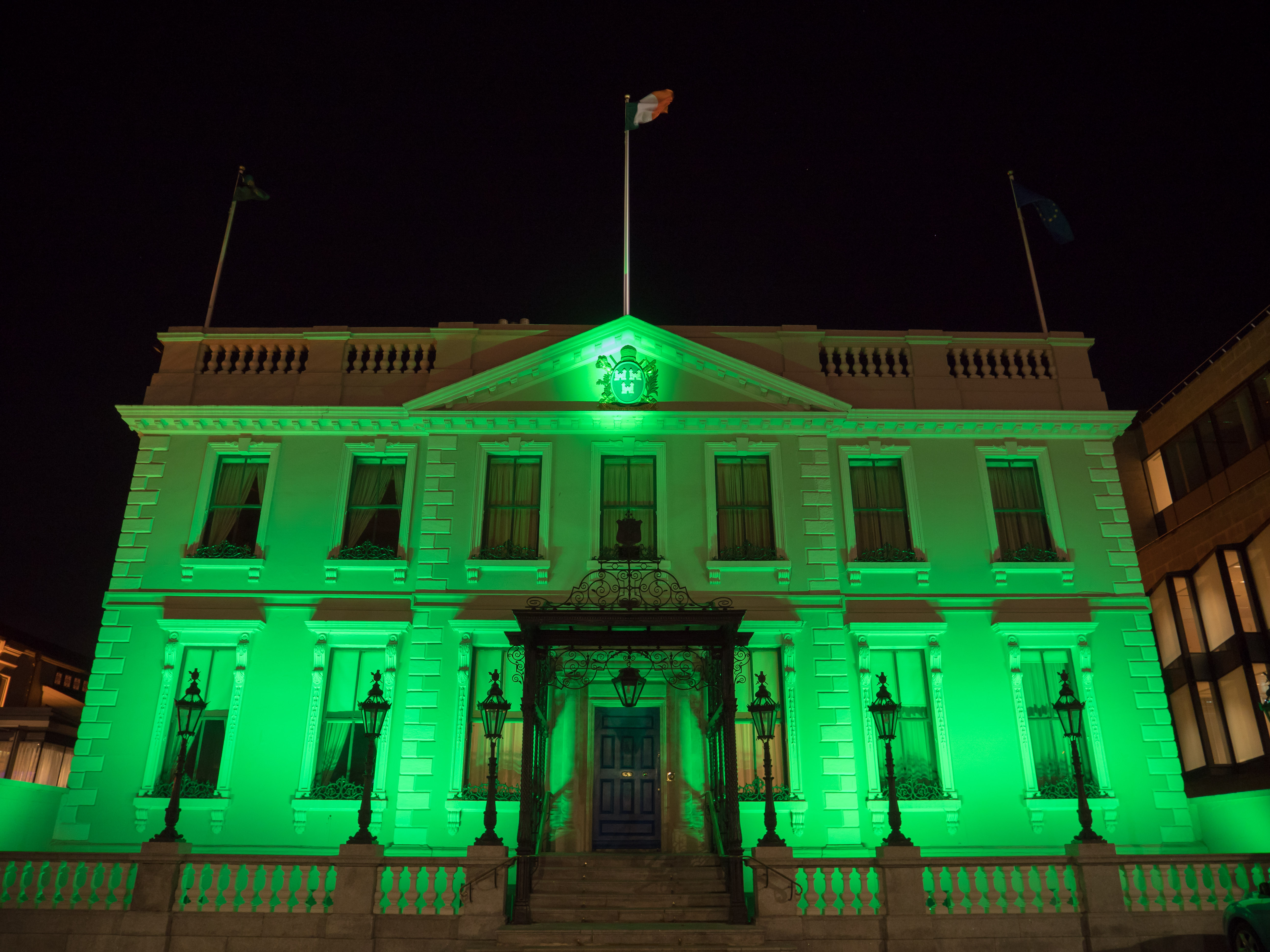 Dublin, Mansion House, Dublin. Wikidata has entry Q383752 with data related to this item.